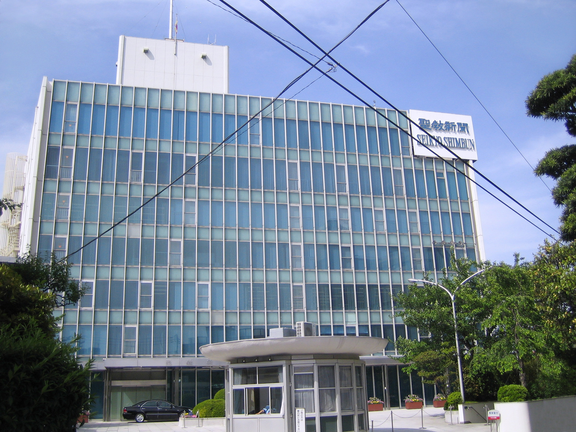 Seikyo Shimbunsha (聖教新聞社), at Shinanomachi, Shinjuku, Tokyo, Japan